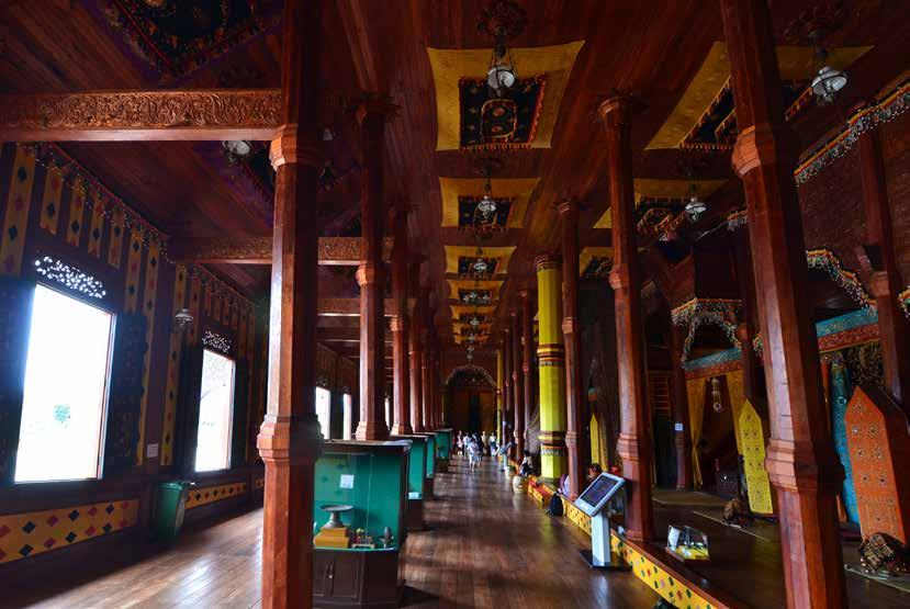 Pagaruyung Palace, West Sumatra